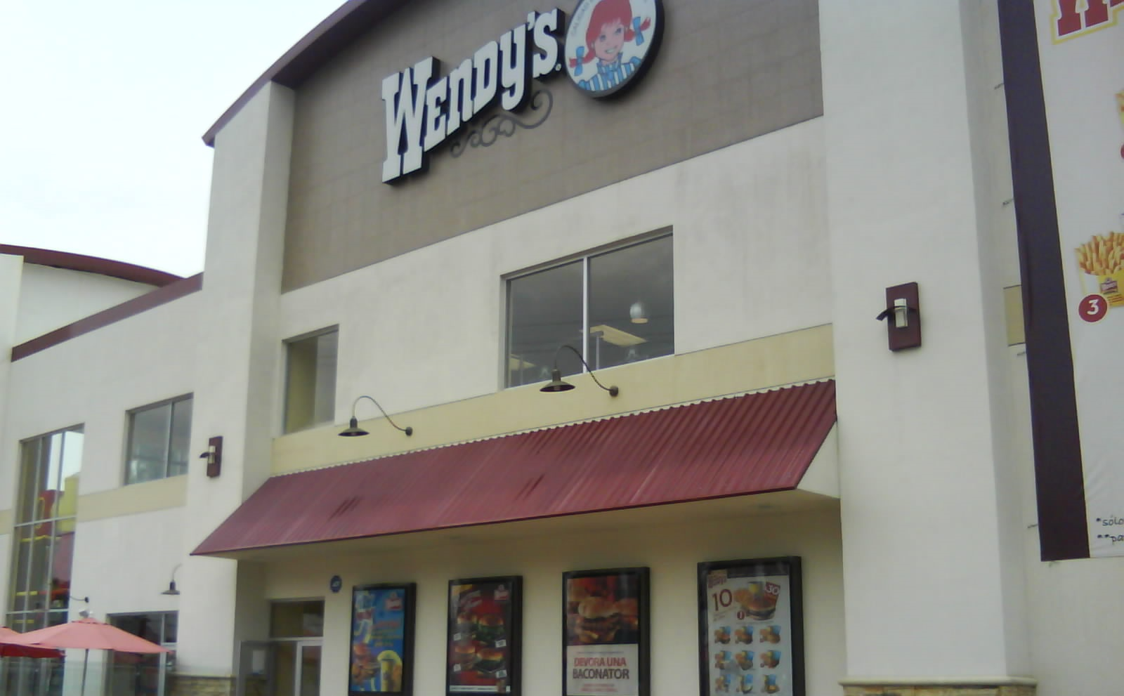 Wendy's restaurant at Miramontes, Mexico.